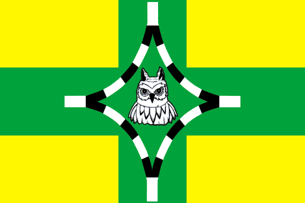 Flag of Tikhoretsk, Krasnodar Territory, Russia